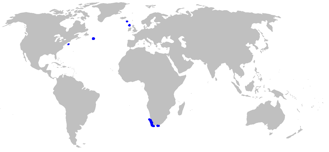 Distribution map for Apristurus microps